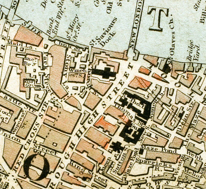 Section of "Improved map of London for 1833, from Actual Survey. Engraved by W. Schmollinger, 27 Goswell Terrace" showing the sites of Guy's and St. Thomas' hospitals.